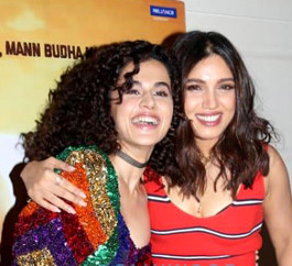 Taapsee Pannu and Bhumi Pednekar celebrate the film Saand Ki Aankh